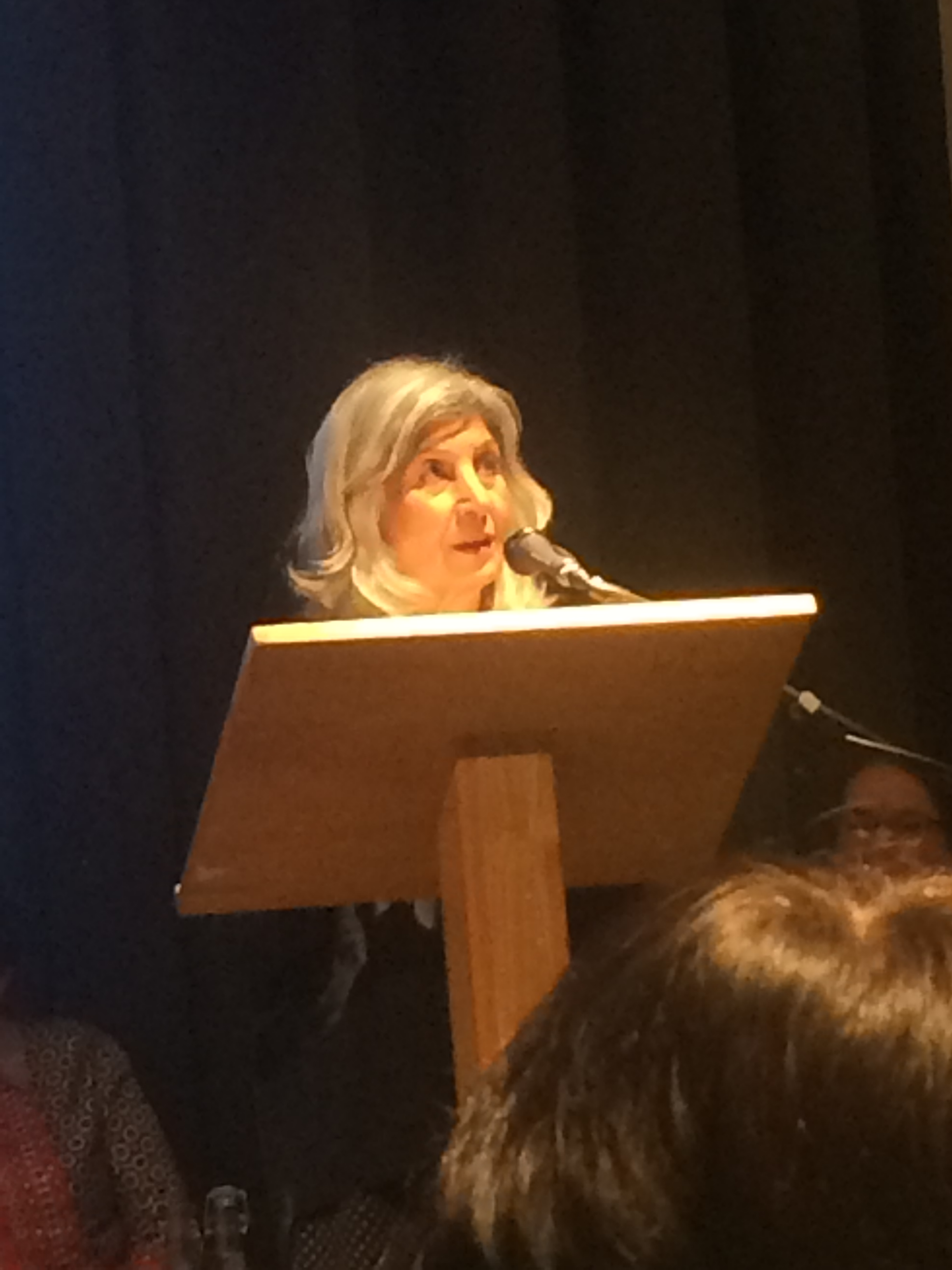 Mimi Khalvati at King's College Shakespeare Festival